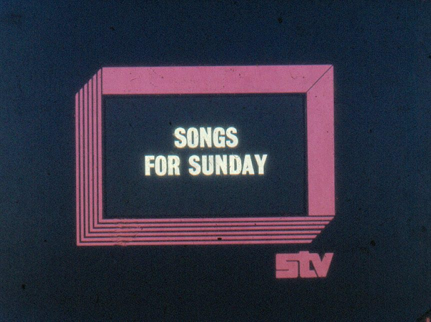 STV 35mm Programme caption for 'Stars for Sunday'